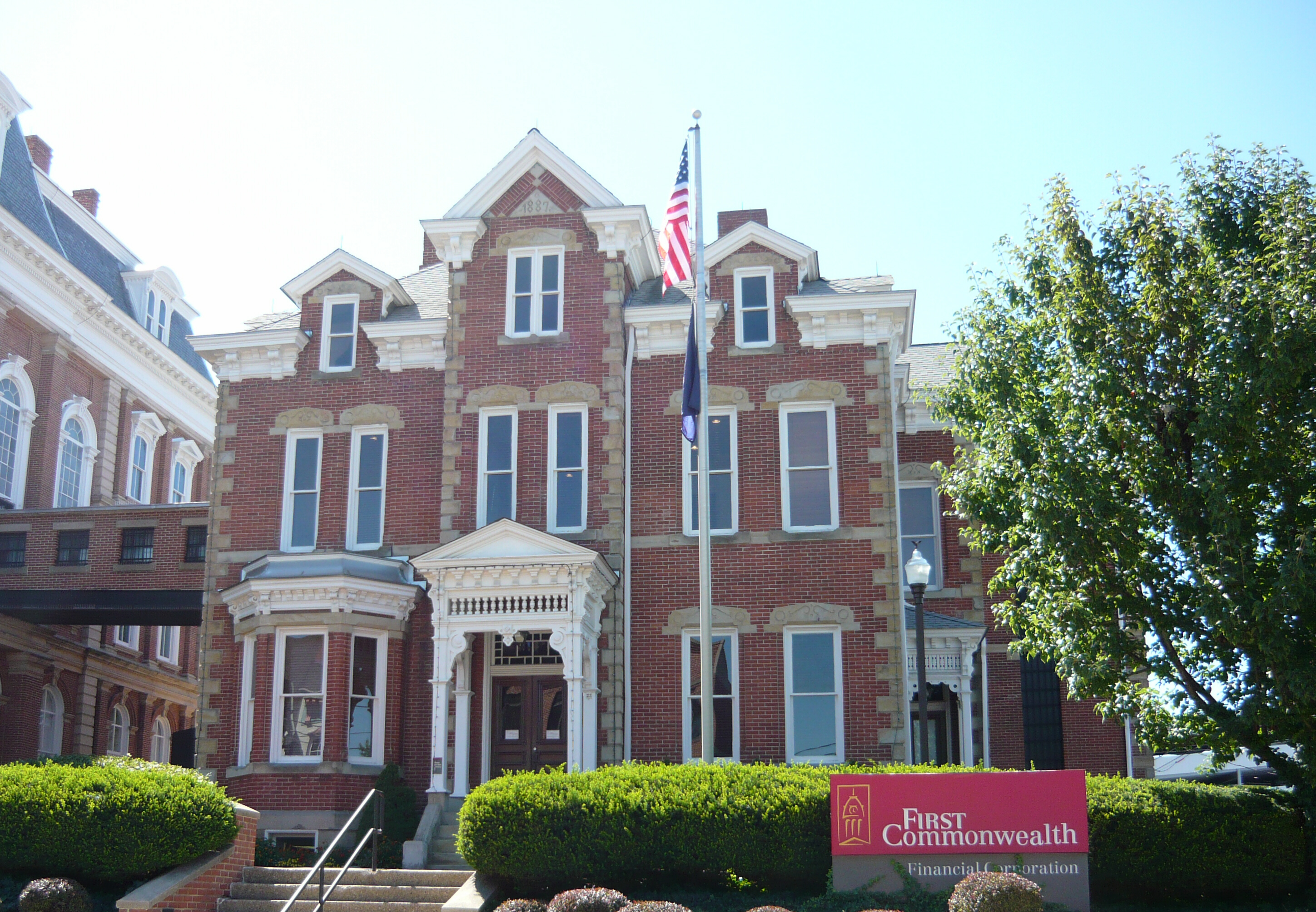 Old Indiana County Jail and Sheriff's Office, 22 North 6th Street at Nixon Avenue, (Borough of) Indiana, Pennsylvania. Built 1888.